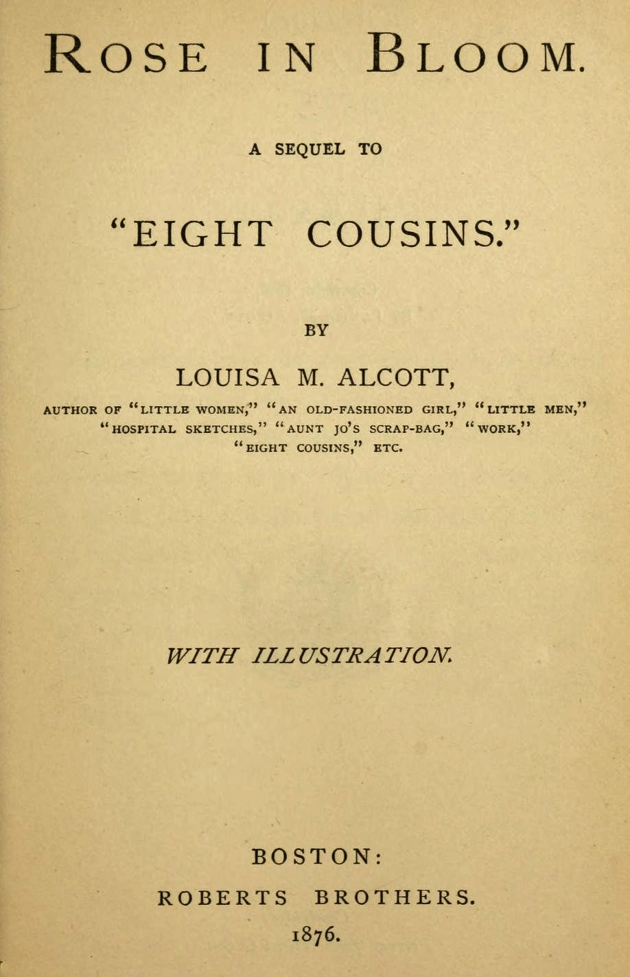 First ed title pg